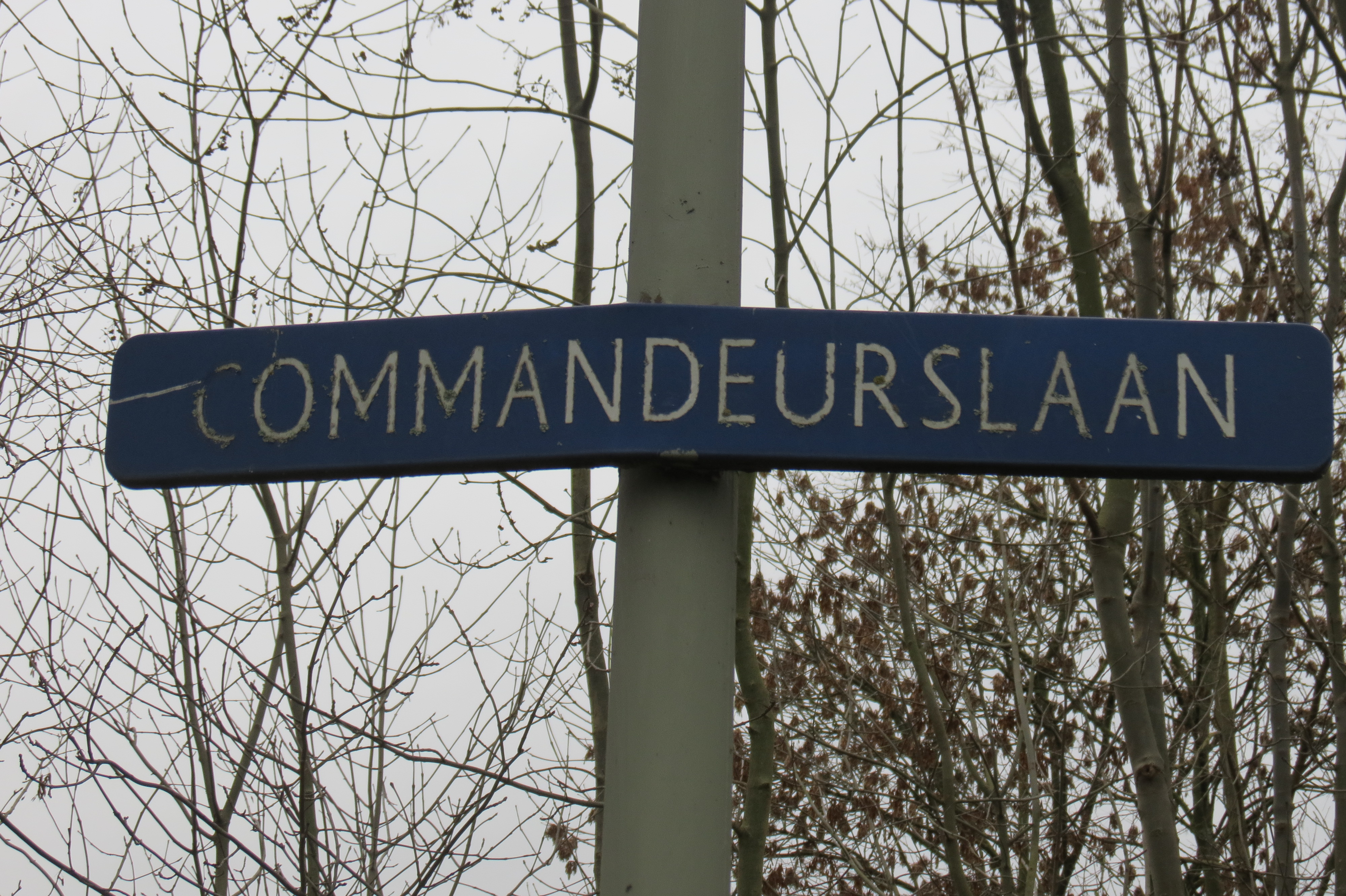 Het laatst bekende naambordje van de Commandeurslaan, lopende vanaf de Boschstraat bij de spoorwegovergang, langs het complex van de SAPPI naar de Biesenwal